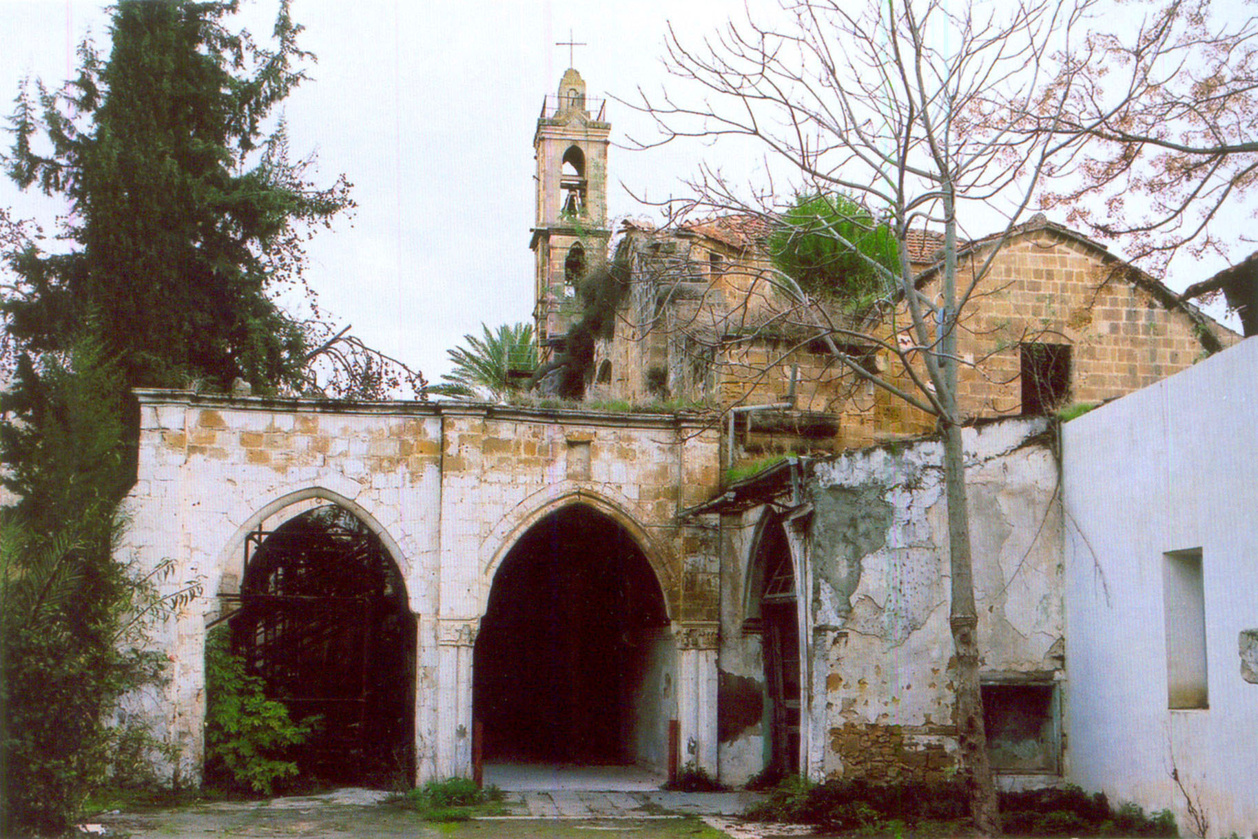 The old Virgin Mary church in old Nicosia prior to its restoration